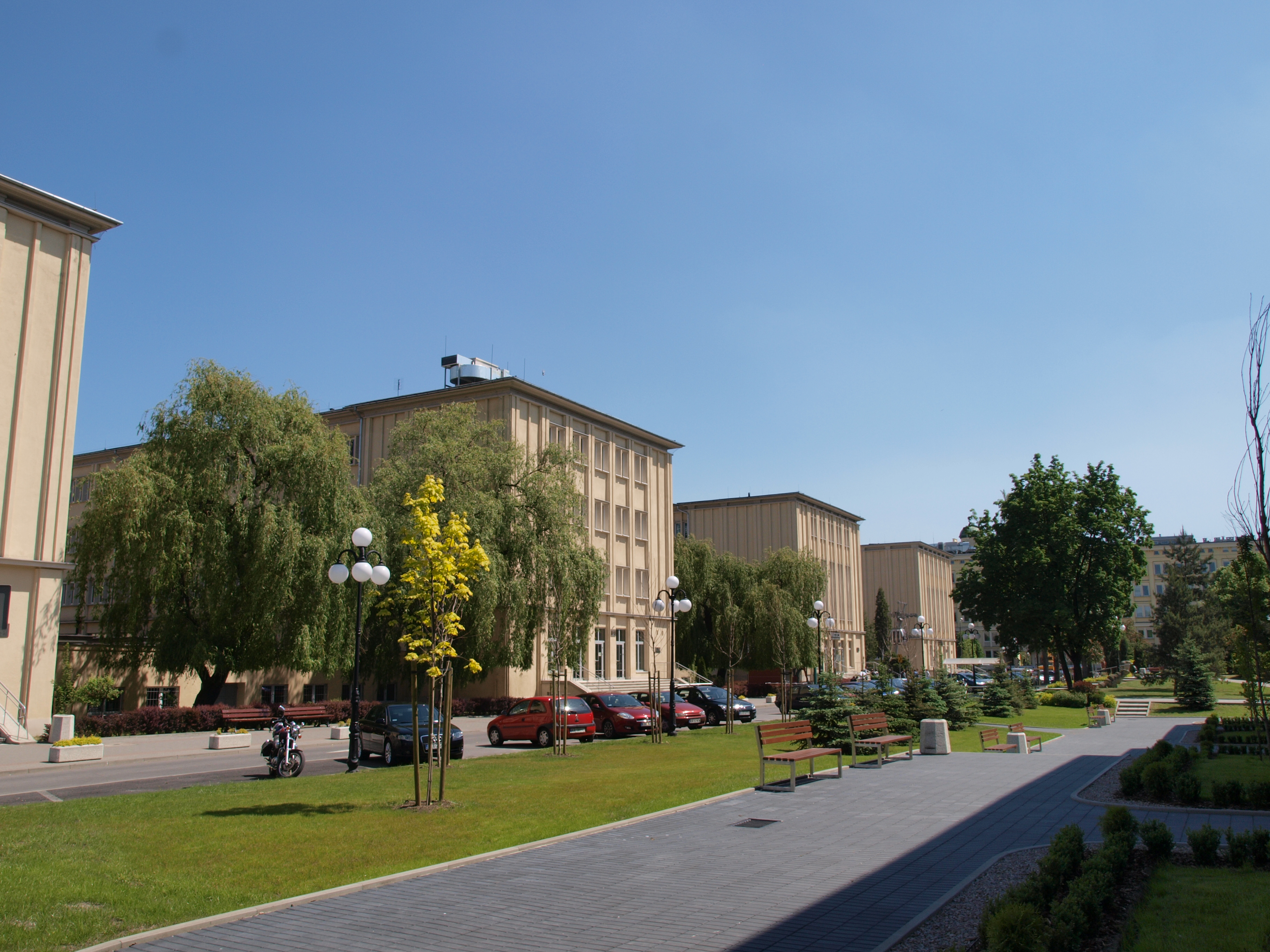 Campus of AGH University of Science And Technology in Cracow, Poland. Visible buildings are: B3, B2 and B1.